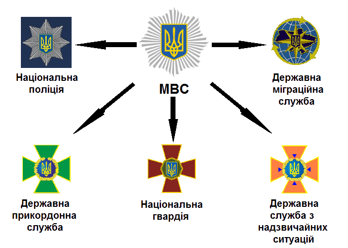 Proposed structure of Ministry of Internal Affairs of Ukraine